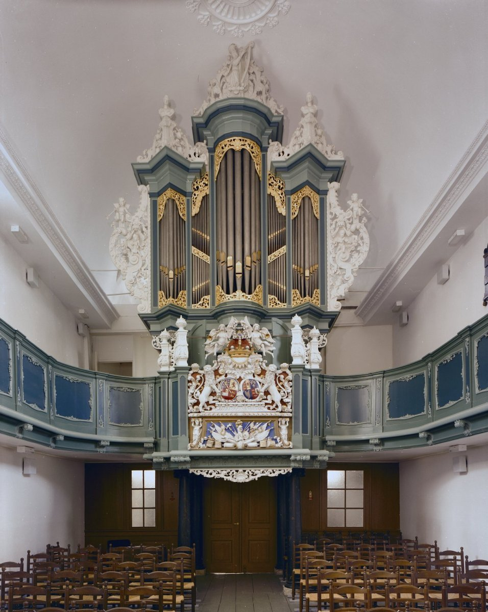 Church organ of former Walloon Church, Grote Kerkstraat 222, Leeuwarden, the Netherlands.